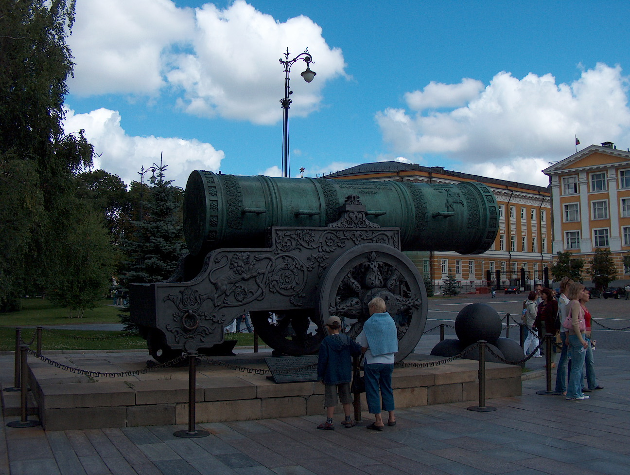 Photo taken in summer '05. Photographer Eino Mustonen